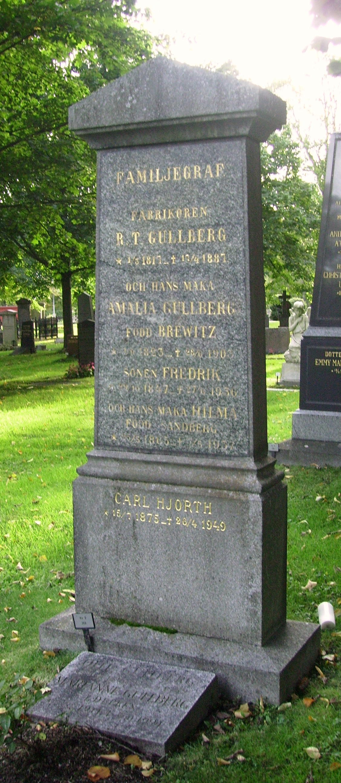 Picture of Reinhold Teodor Gullberg's grave at Norra begravningsplatsen in Solna